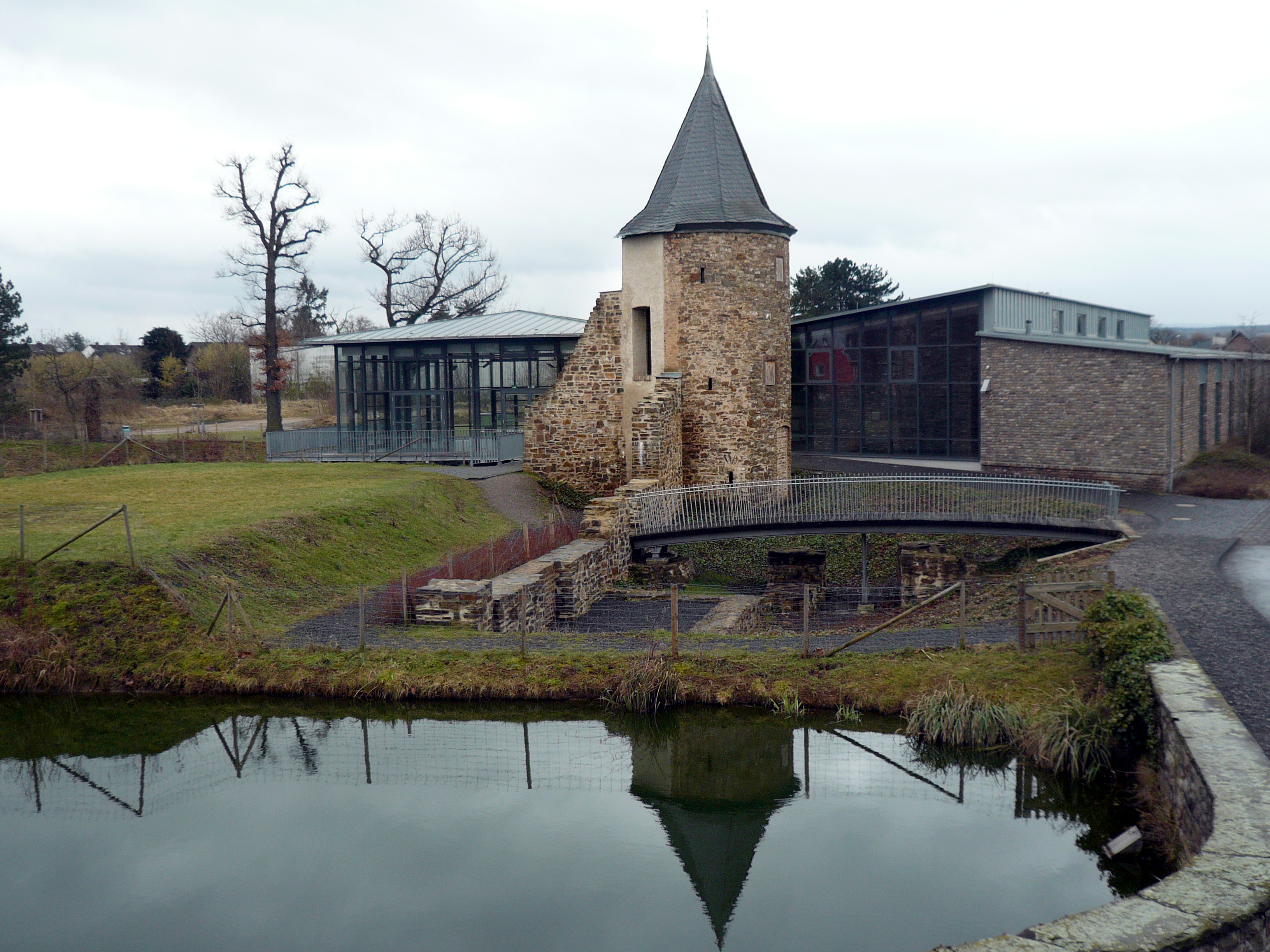 The 'Obere Burg' (literally: Upper Castle) in Euskirchen-Kuchenheim, North Rhine-Westphalia and the museum's guesthouse of the LVR Industrial Museum - Mueller Cloth Mill.